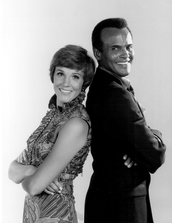 Photo of Julie Andrews and Harry Belafonte in a publicity photo for the NBC special An Evening with Julie Andrews and Harry Belafonte, telecast Nov. 9, 1969.